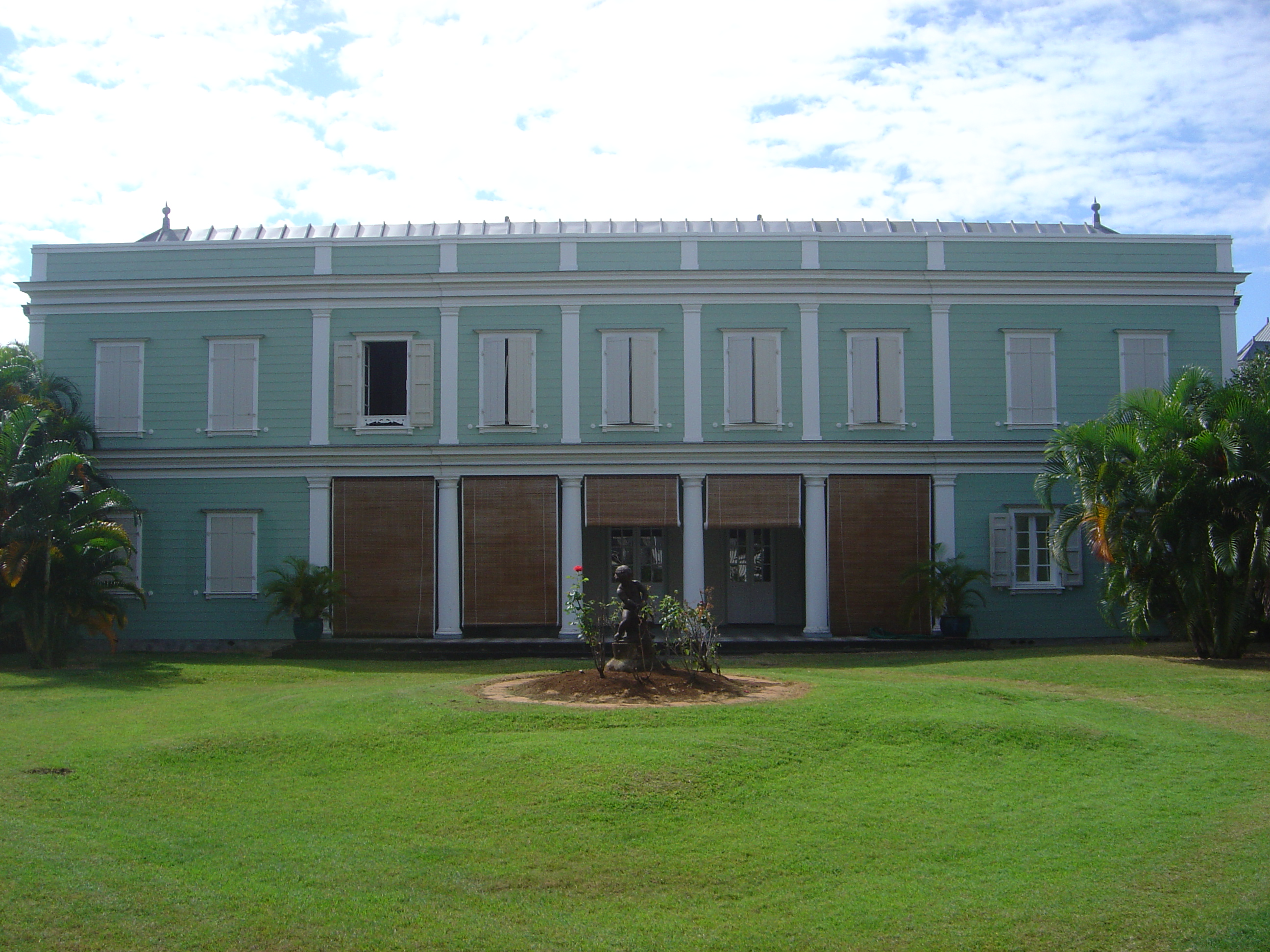 House where Léon Dierx and Raymond Barre were born in Saint-Denis, Réunion